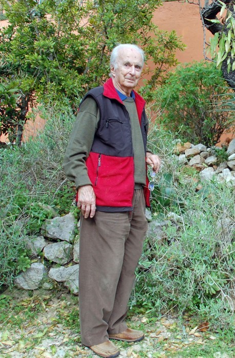 Portrait of John Jacob Lavranos in his garden